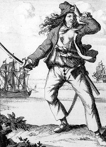 Mary Read